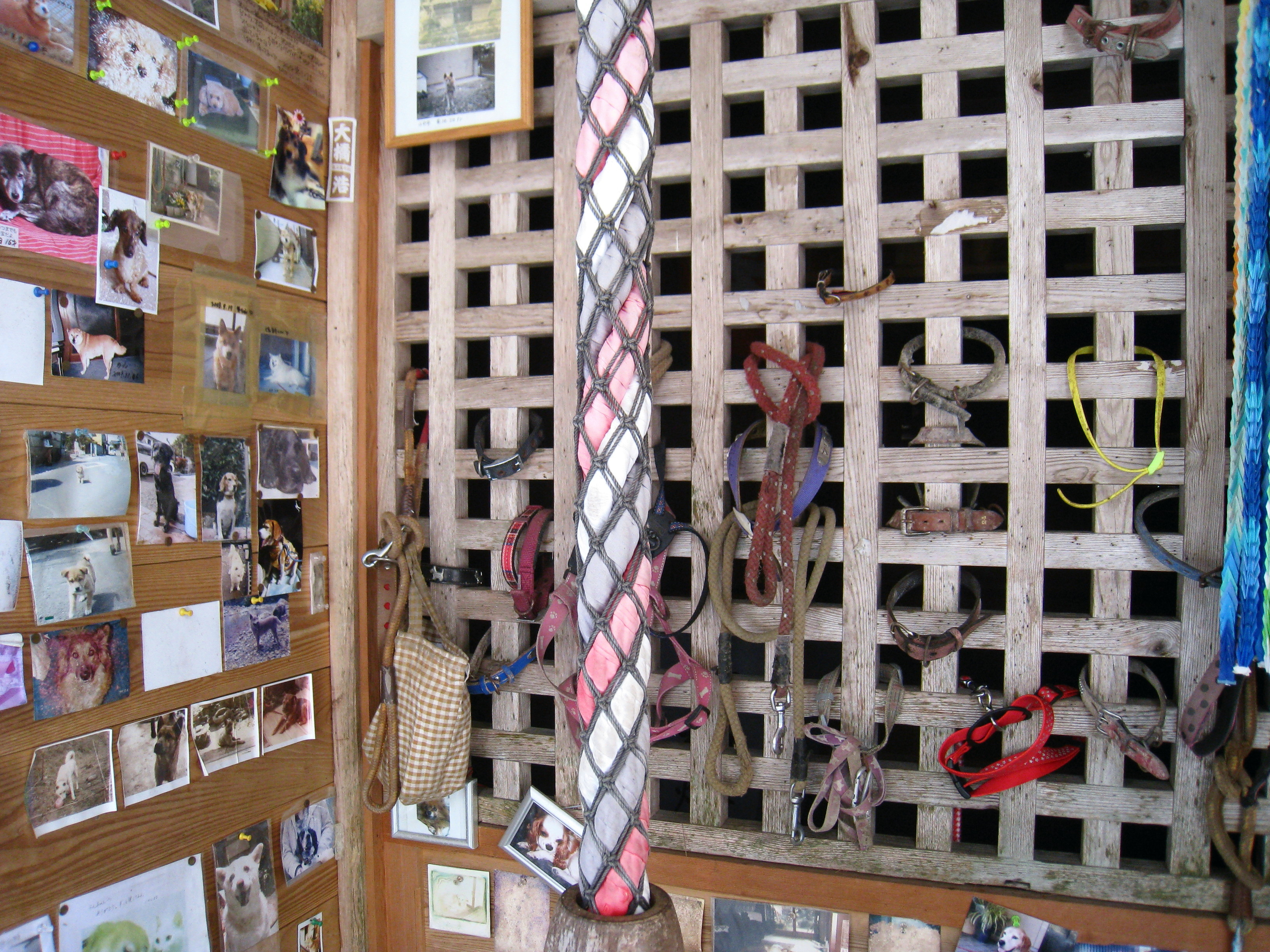 Haiden (worship hall) at the Inu no Miya shrine in Takataha Town, Yamagata Prefecture, Japan